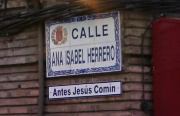 photo showing changing names of a Zaragoza street